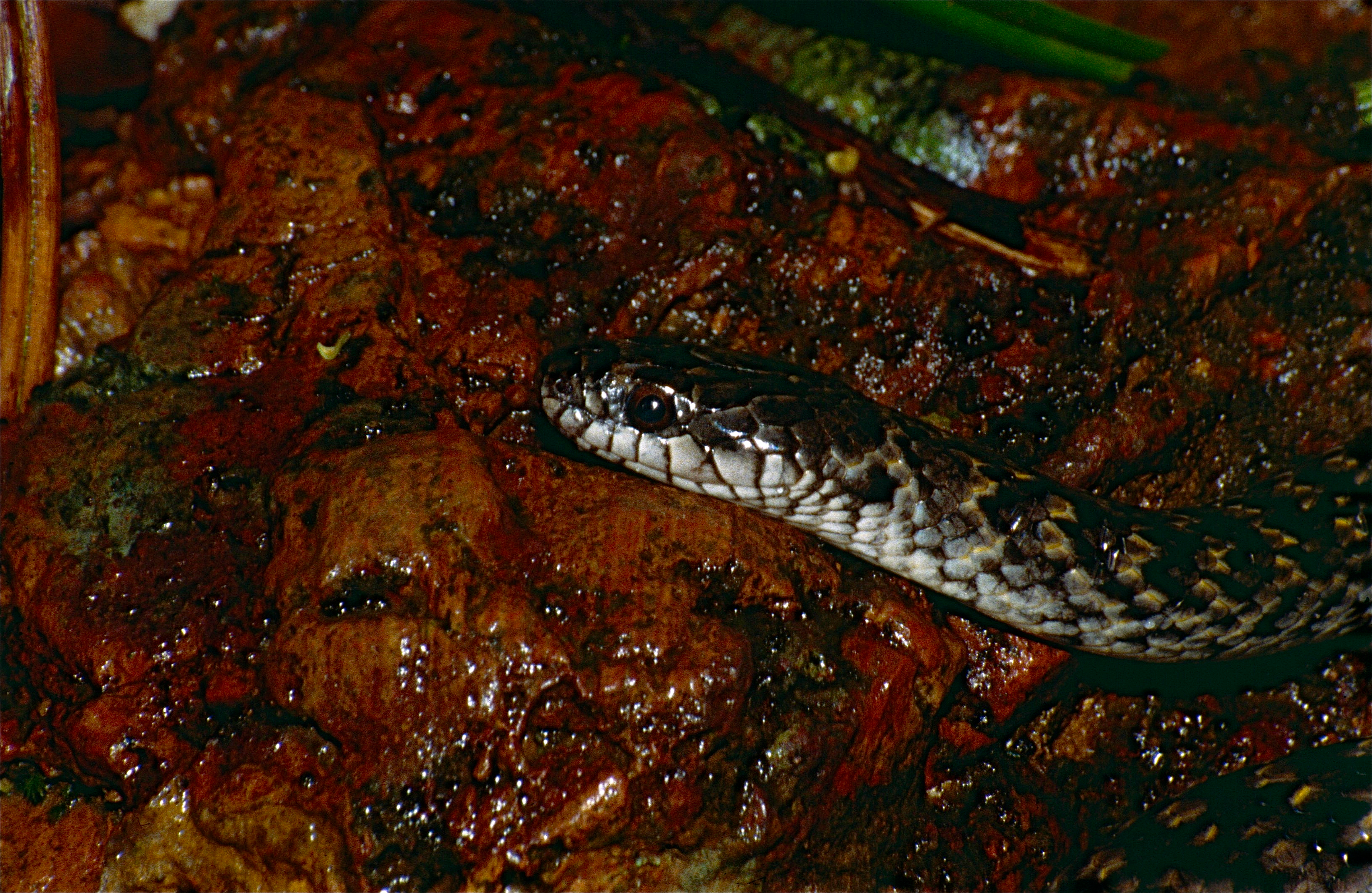 Matoury, Guyane, FRANCE Scanned Slide from 1998